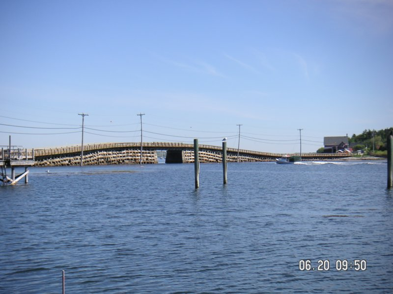 Bailey Island Bridge (Bailey Island, Maine, June 2005, Kyle MacLea)